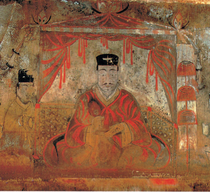 A drawing in one of the chambers of the Goguryeo tombs. Painting in Anak Tomb No. 3, the 67th national treasure of Korea.